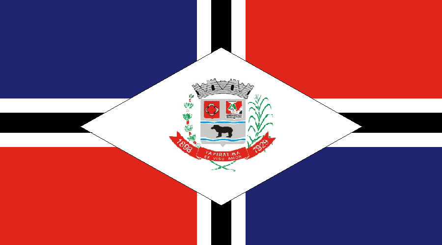 The image is paint arquive